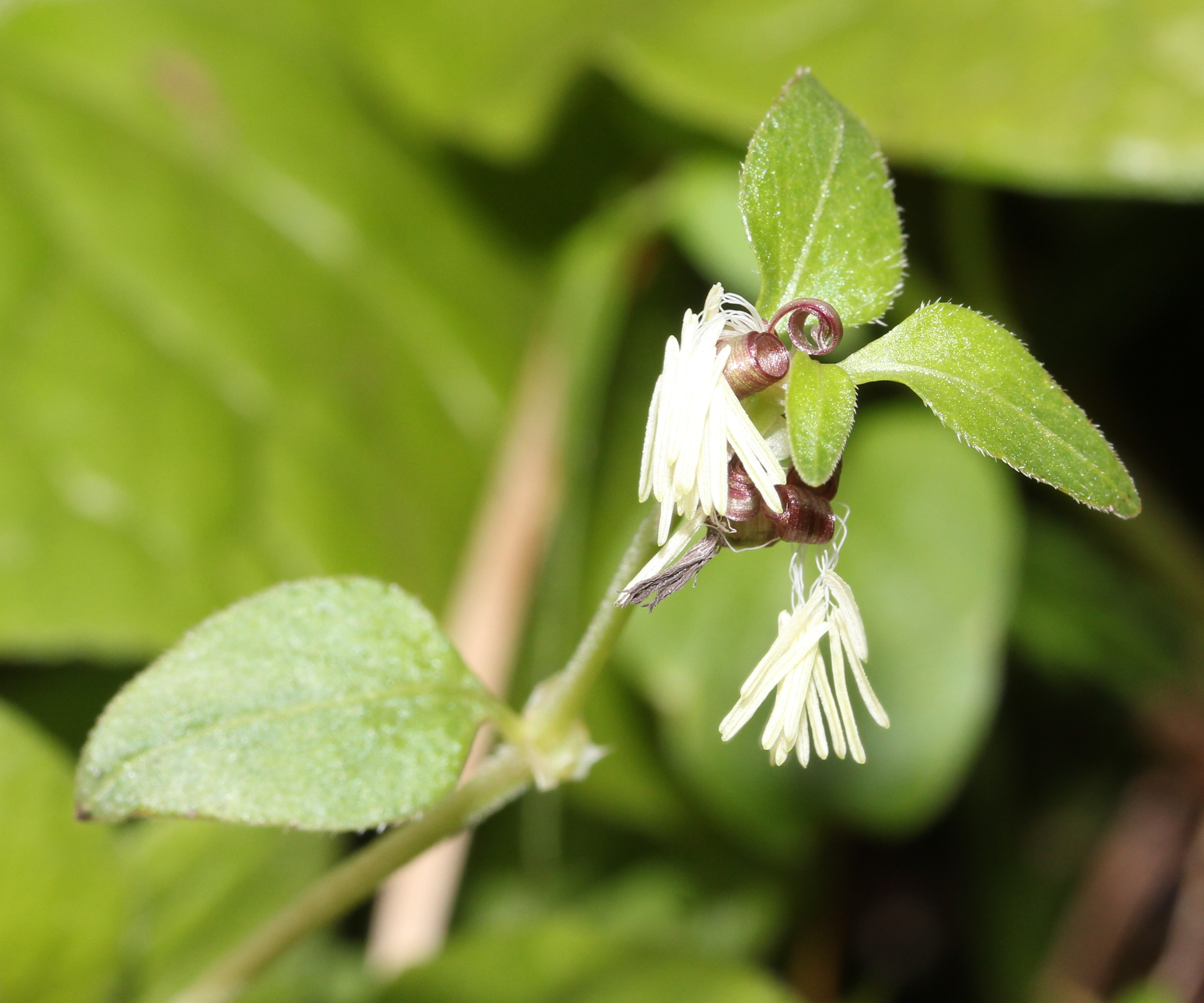 Theligonum japonicum in north ridge of Mount Ibuki, Maibara, Japan.